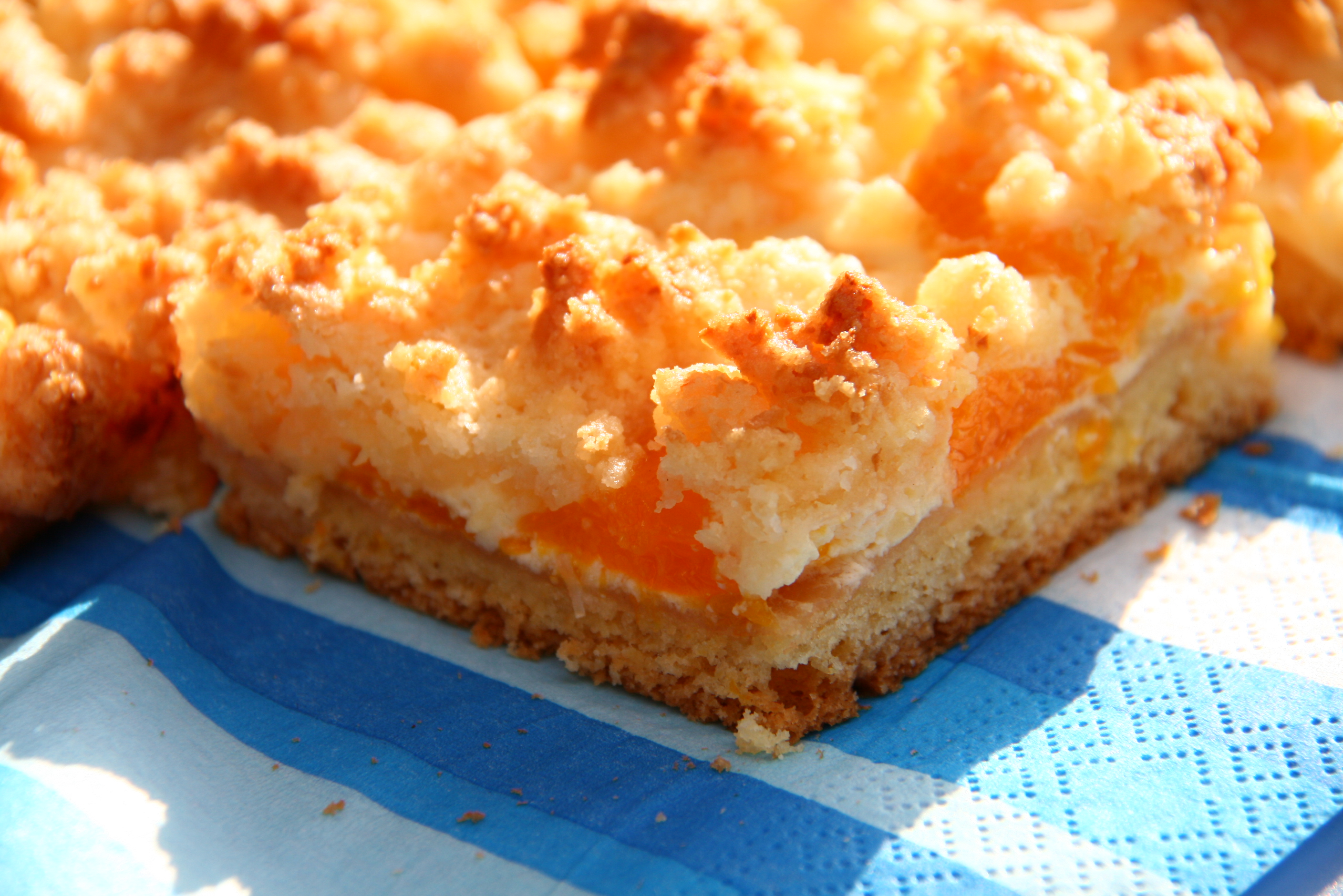 Mandarinenschmandkuchen (sour cream cake with tangerine) with coconut crumble